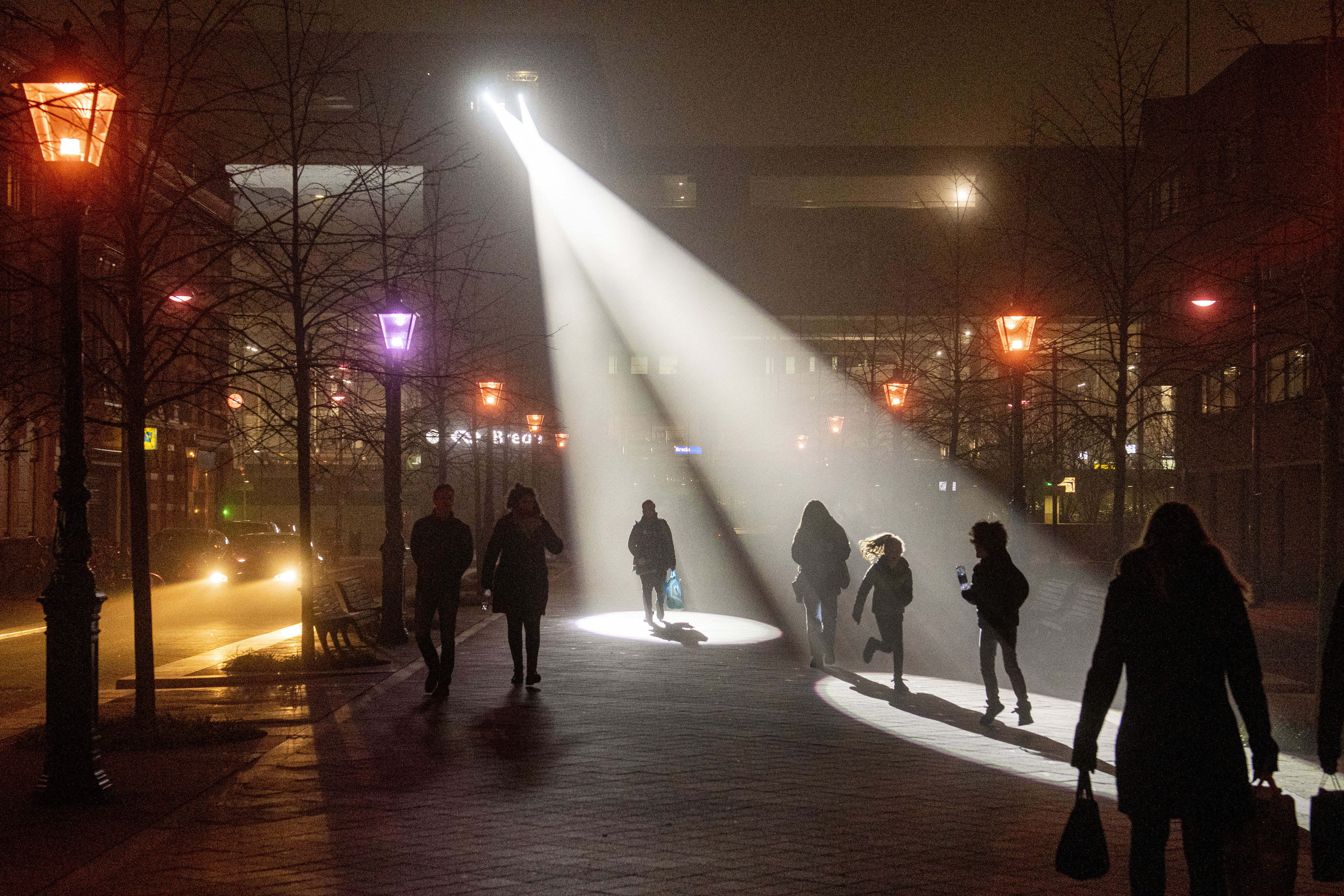 PHOTE by Edwin Wiekens - Graphic Matters. Cultuurnacht Breda 2020. Track Tracy– presented by Graphic Matters, Stationsplein / 19:00 - 00:00. Twee indrukwekkende schijnwerpers zetten je in de spotlights! Track Tracy is een installatie op de grens van privacy en de verleiding van stardom. Een actueel thema dankzij sociale media aan de ene kant en toenemende camerabewaking aan de andere kant.Track Tracy is een project van Antwerps artistiek duo Daems van Remoortere (Lena Daems en Frederik van Remoortere). Het duo maakt verschillende publieke kunstinstallaties waarbij het publiek vaak wordt betrokken.